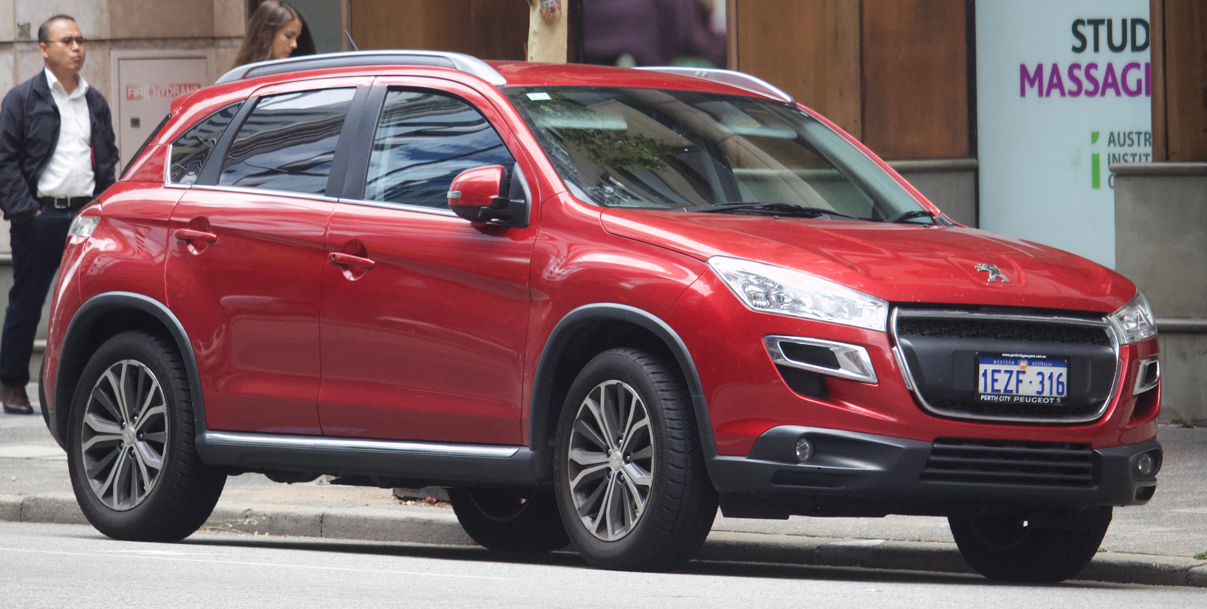 2016 Peugeot 4008 (MY15) Active wagon. Sorry Vauxford, but these are not sold in the UK. Photographed in Perth, Western Australia, Australia.